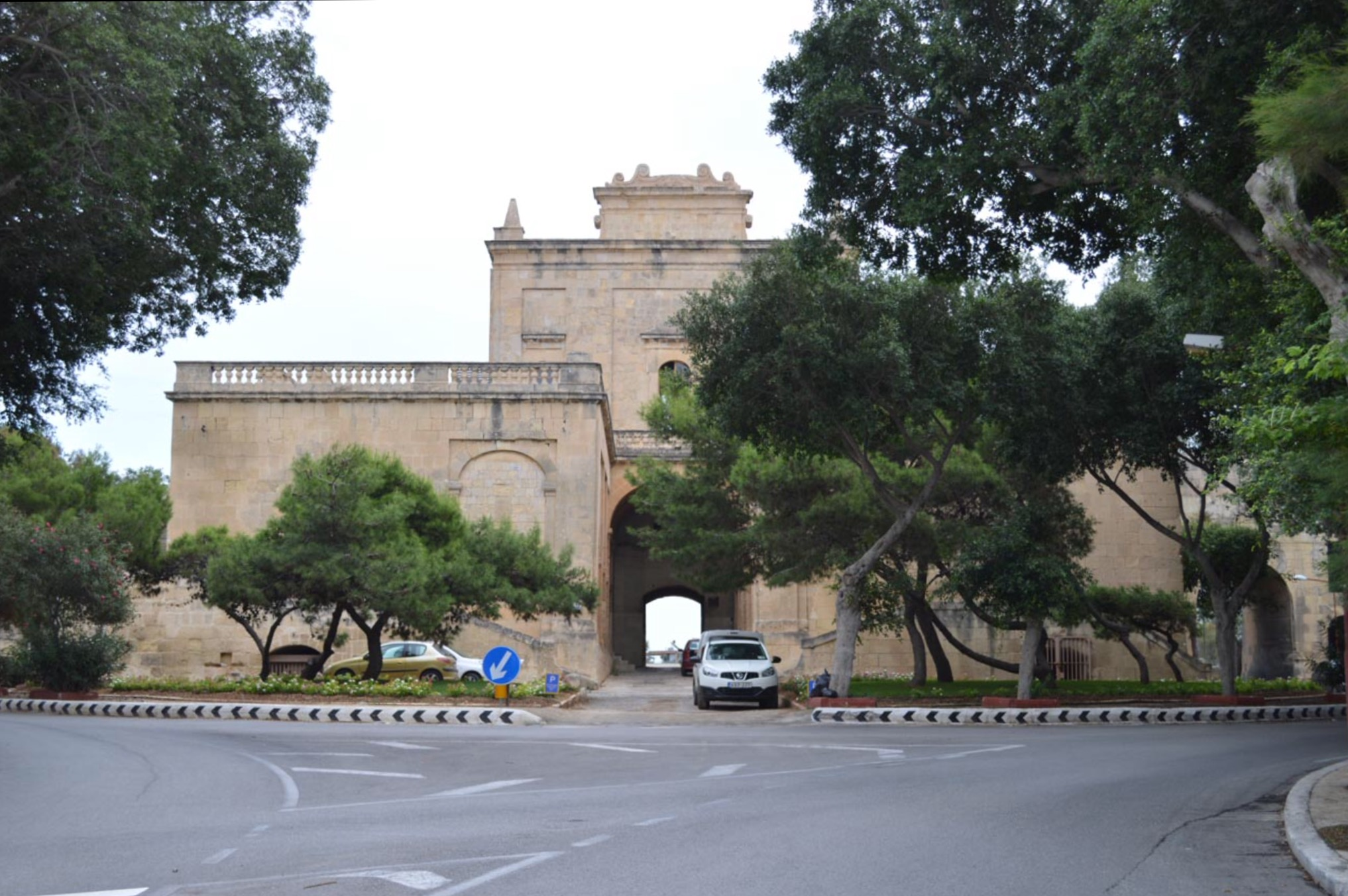 Notre Dame de la Grace Gate - Cottonera Lines This media is about Maltese cultural property with inventory number 01557.